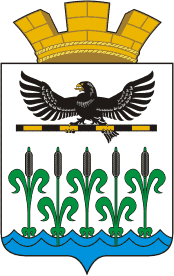 Coat of arms of Shumikha, Kurgan Oblast, Russia, adopted in 2005 (08.12.2005)